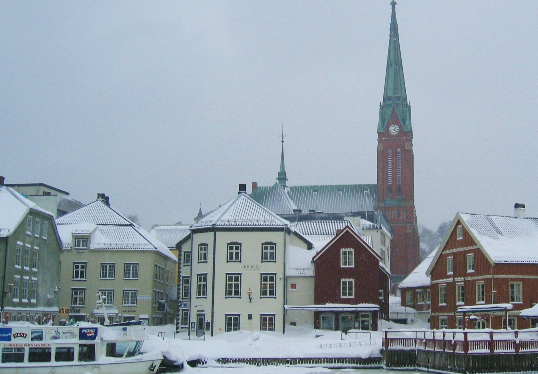 Tyholmen in Arendal in snow 2007